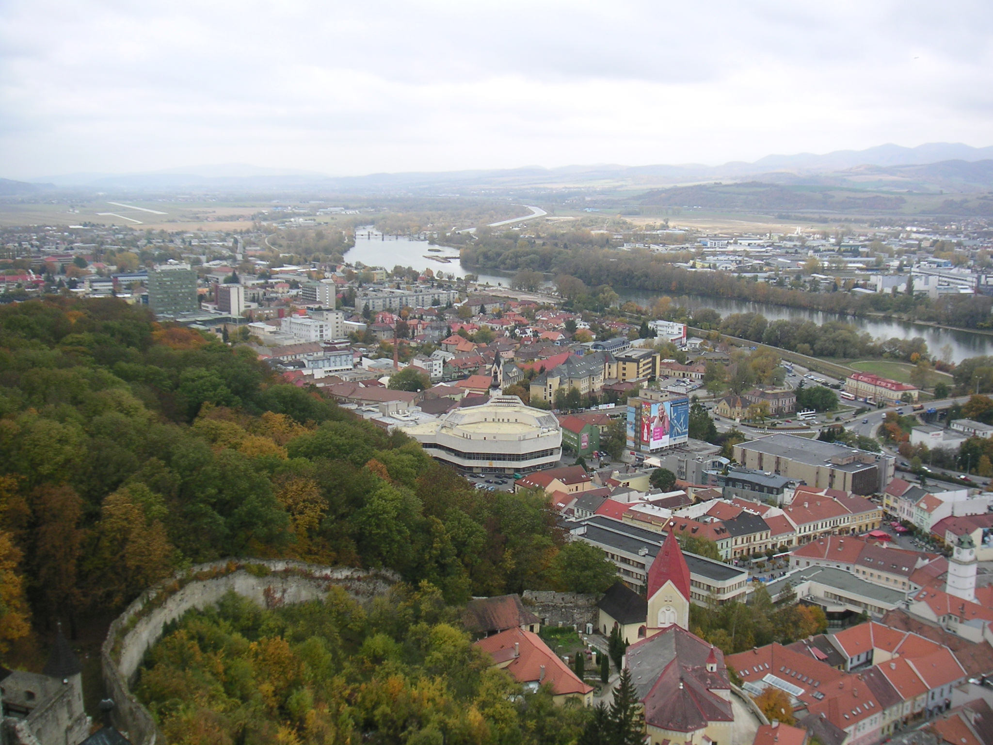 Trenčín (south-western part), from the Trenčín Castle